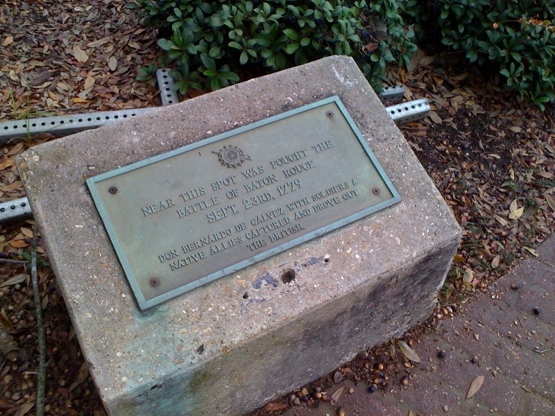 Plaque in Baton Rouge, Louisiana commemorating the Battle of Baton Rouge (1779) as part of the American Revolution.